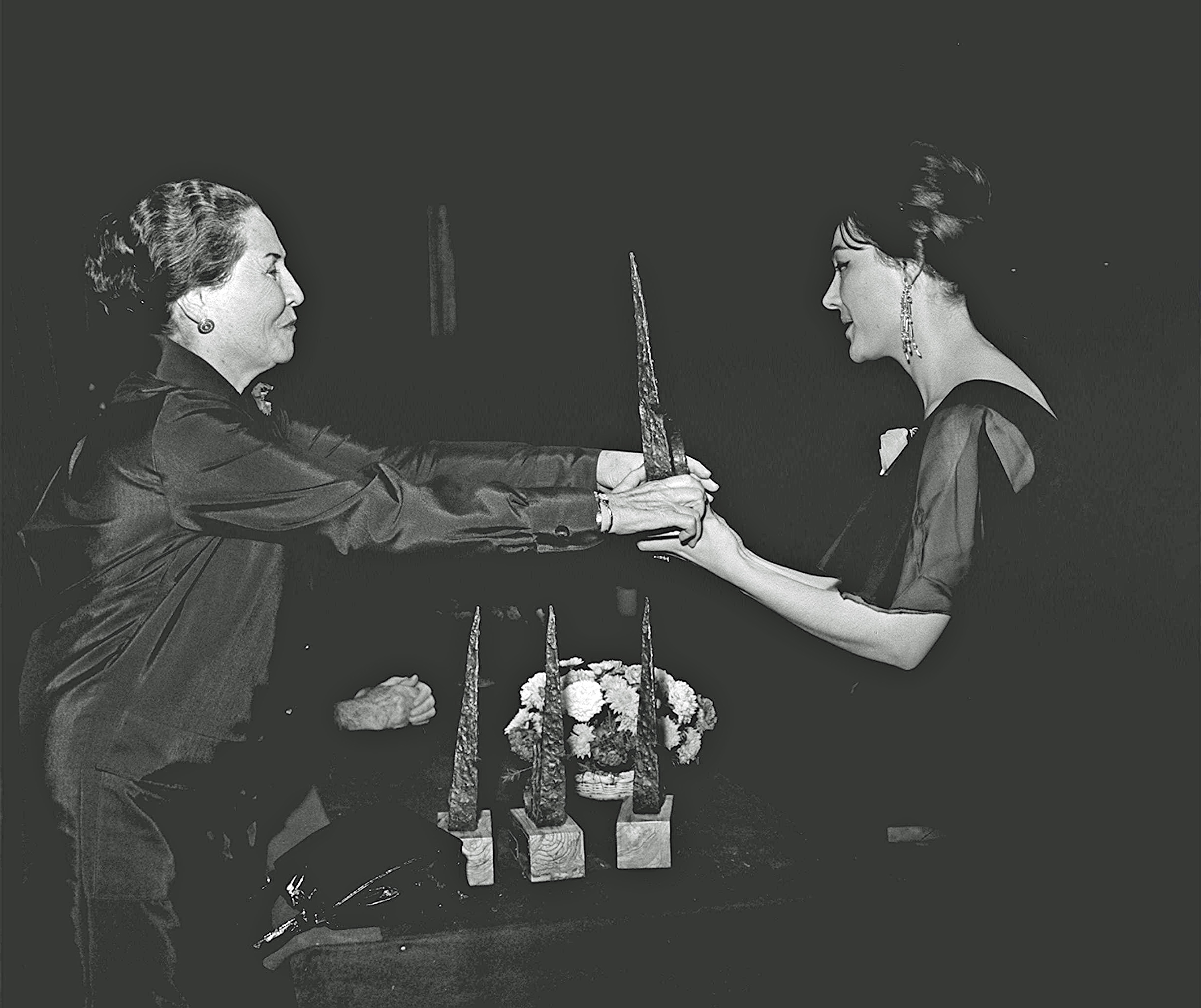 THE 1964 "KINOR DAVID" AWARD, HELD AT THE "CAMERI" THEATRE. IN THE PHOTO, HANNA ROVINA (L) PRESENTING RIVKA RAZ WITH THE BEST SINGER PRIZE.